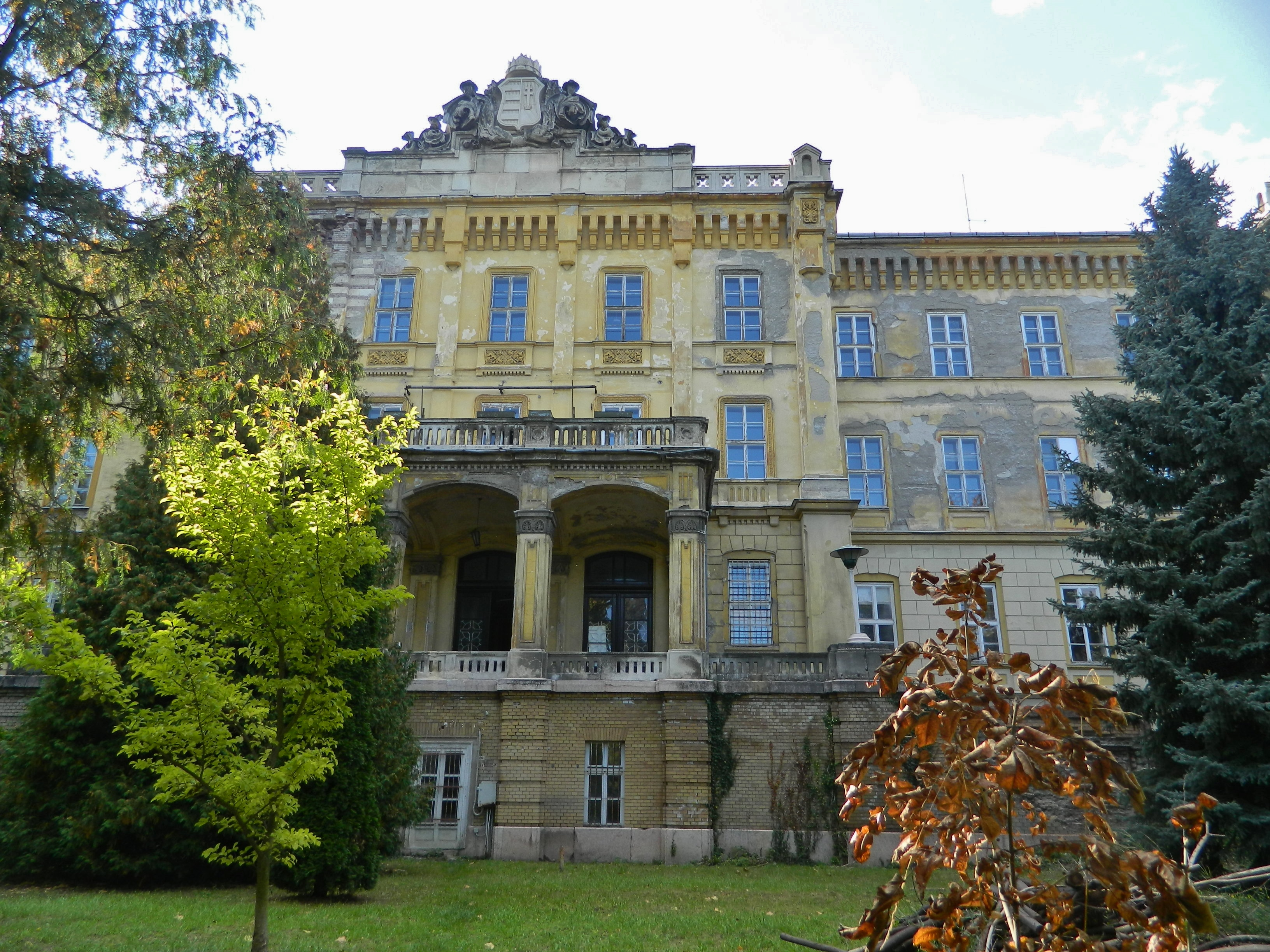 Psychiatric hospital Lipótmező, 1868, architect Ludwig Zettl This is a photo of a monument in Hungary. Identifier: 274